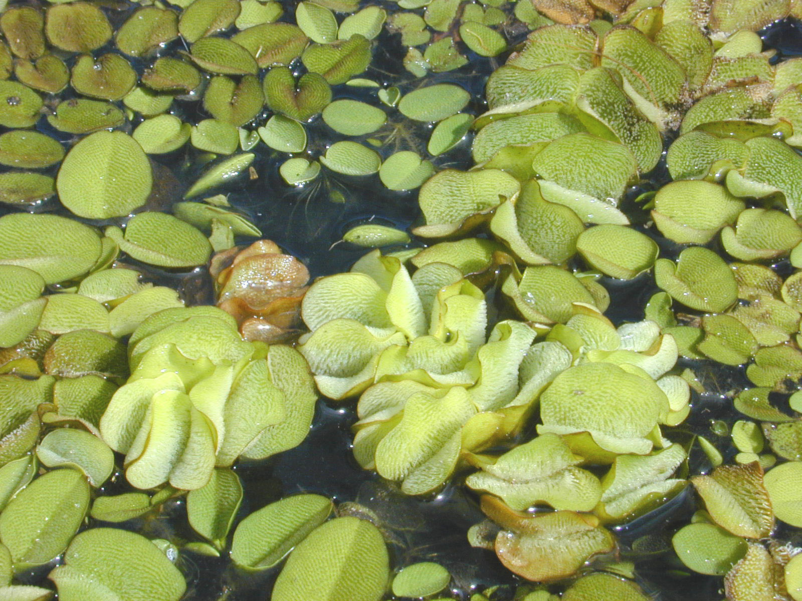 The aquatic fern, Salvinia molesta, photographed in Hawai‘i by Eric Guinther (Marshman at en.wikipedia). (Moved from Wikipedia by author).